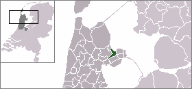 Locator map of Dutch municipalities in Noord-Holland (LocatieWervershoof.png)